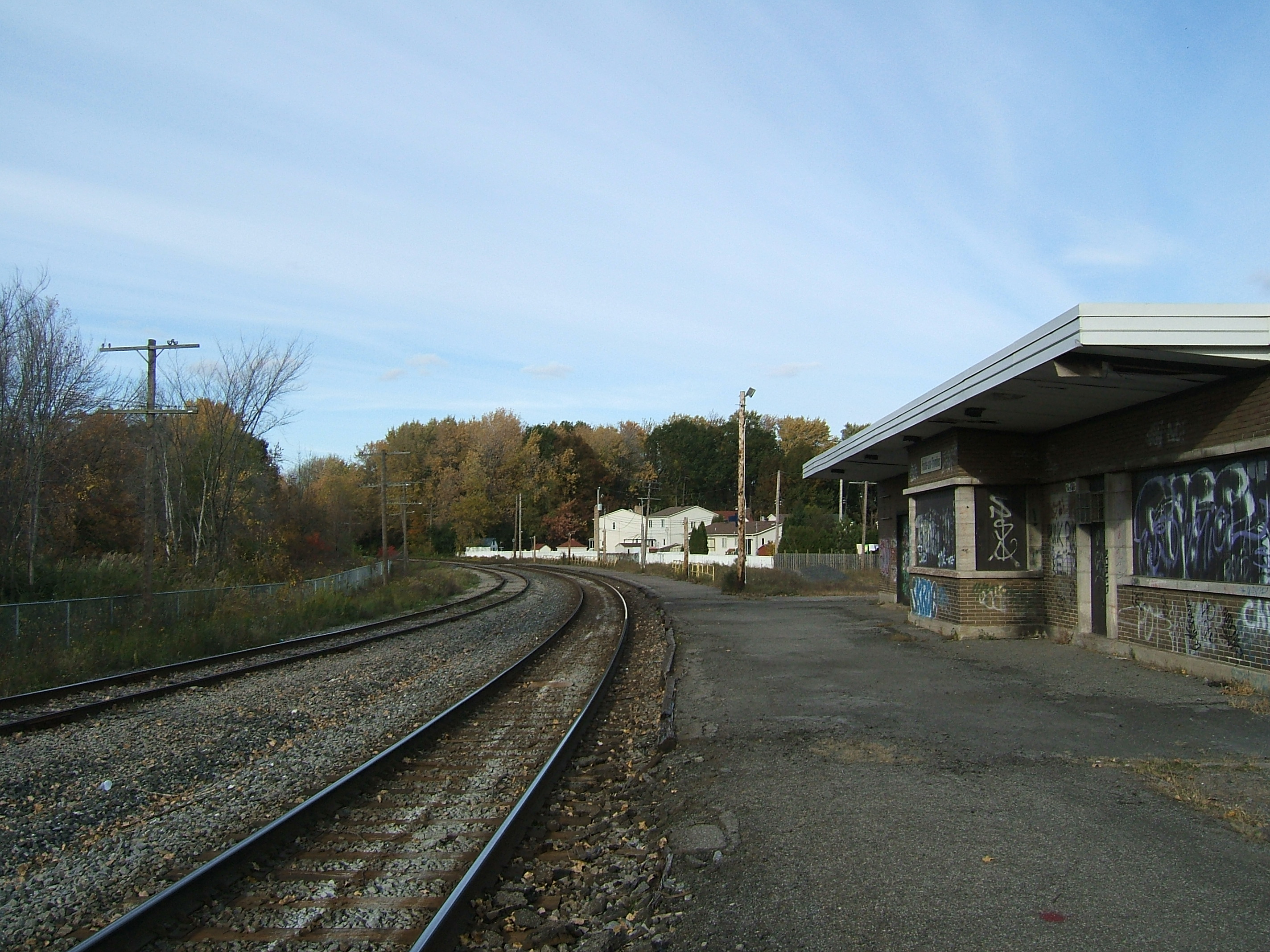 Pointe-aux-Trembles, Québec, railway station